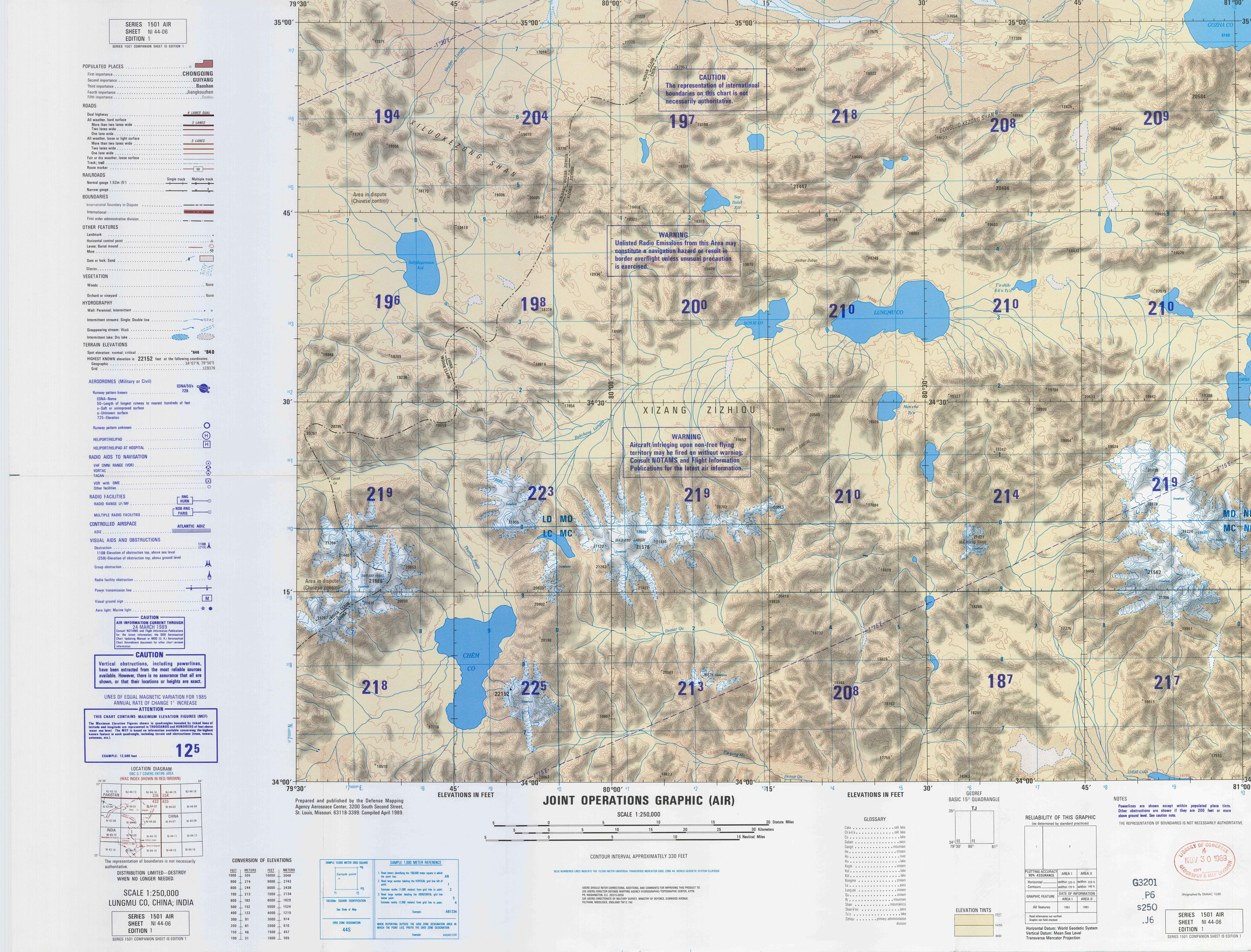 NI-44-06 Lungmu Co, China